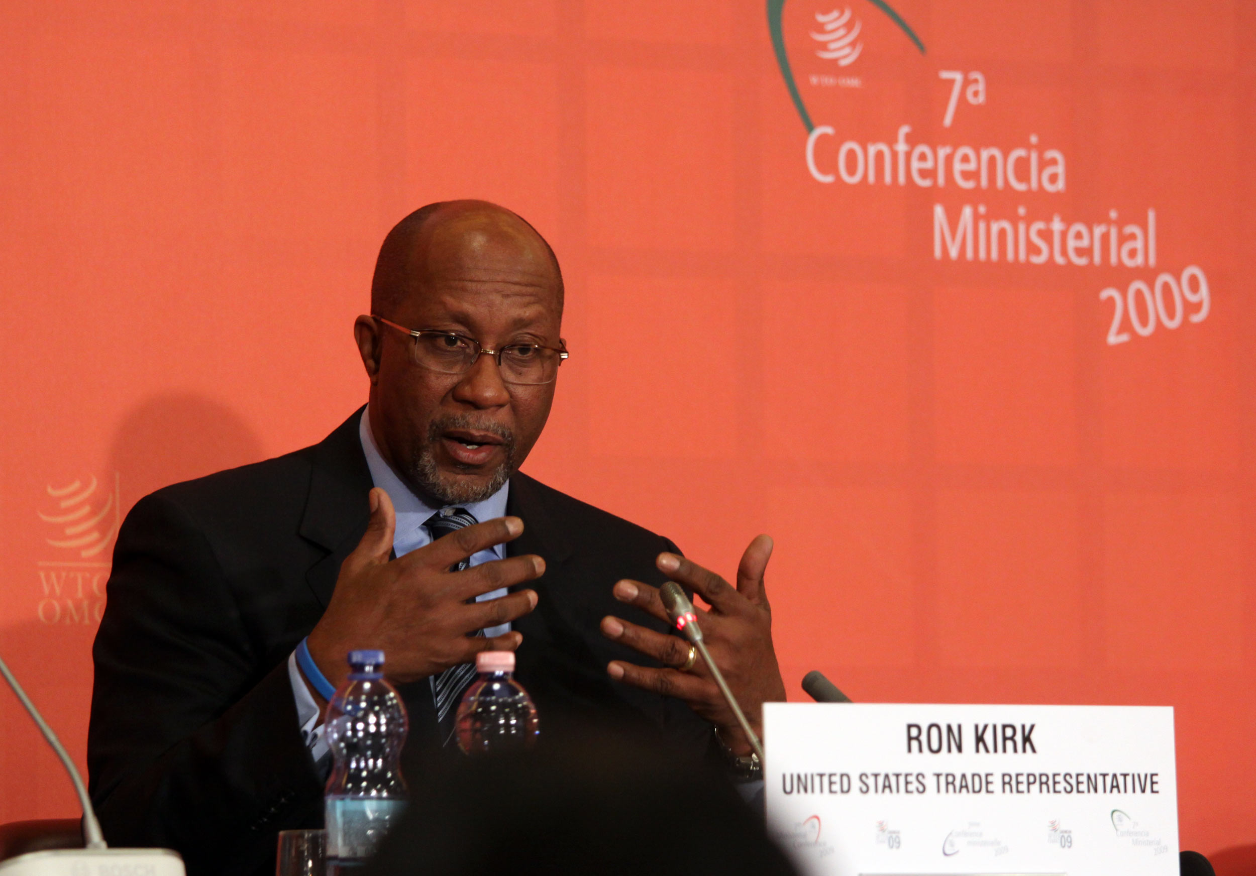 Ambassador Ron Kirk, U.S. Trade Representative, speaking at a press conference following the conclusion of the 7th WTO Ministerial Conference in Geneva, Switzerland. U.S. Mission Photo: Eric Bridiers